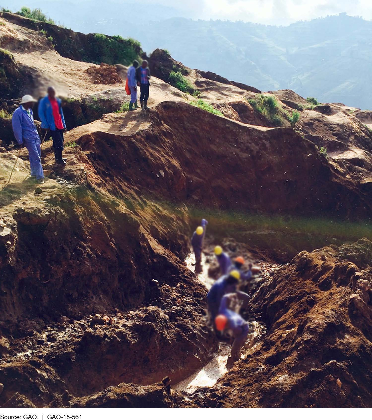 This image is excerpted from a U.S. GAO report: SEC CONFLICT MINERALS RULE: Initial Disclosures Indicate Most Companies Were Unable to Determine the Source of Their Conflict Minerals